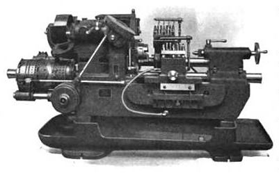 Fay automatic lathe, manufactured by Jones & Lamson Machine Co. from ASME (1921), A.S.M.E. mechanical catalog and directory, Volume 11, American Society of Mechanical Engineers